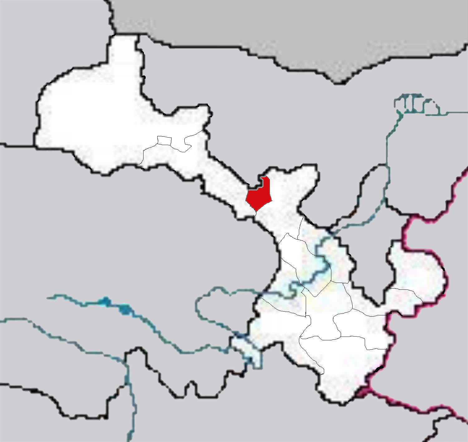 maps of Gansu Province of China